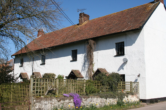 Uffculme: Factory Cottages. These cottages – together with a weir and remains of a leat on the Culm – are all that remain of the water-powered Bradfield Mill complex, once owned by the Upcott family of Cullompton. Woollen cloth was manufactured here and the machinery and plant were for sale in 1870. There was also a water-powered fulling mill on site. The complex was rebuilt after a major fire in 1822. Following the machinery sale the buildings were eventually demolished, excepting these cottages